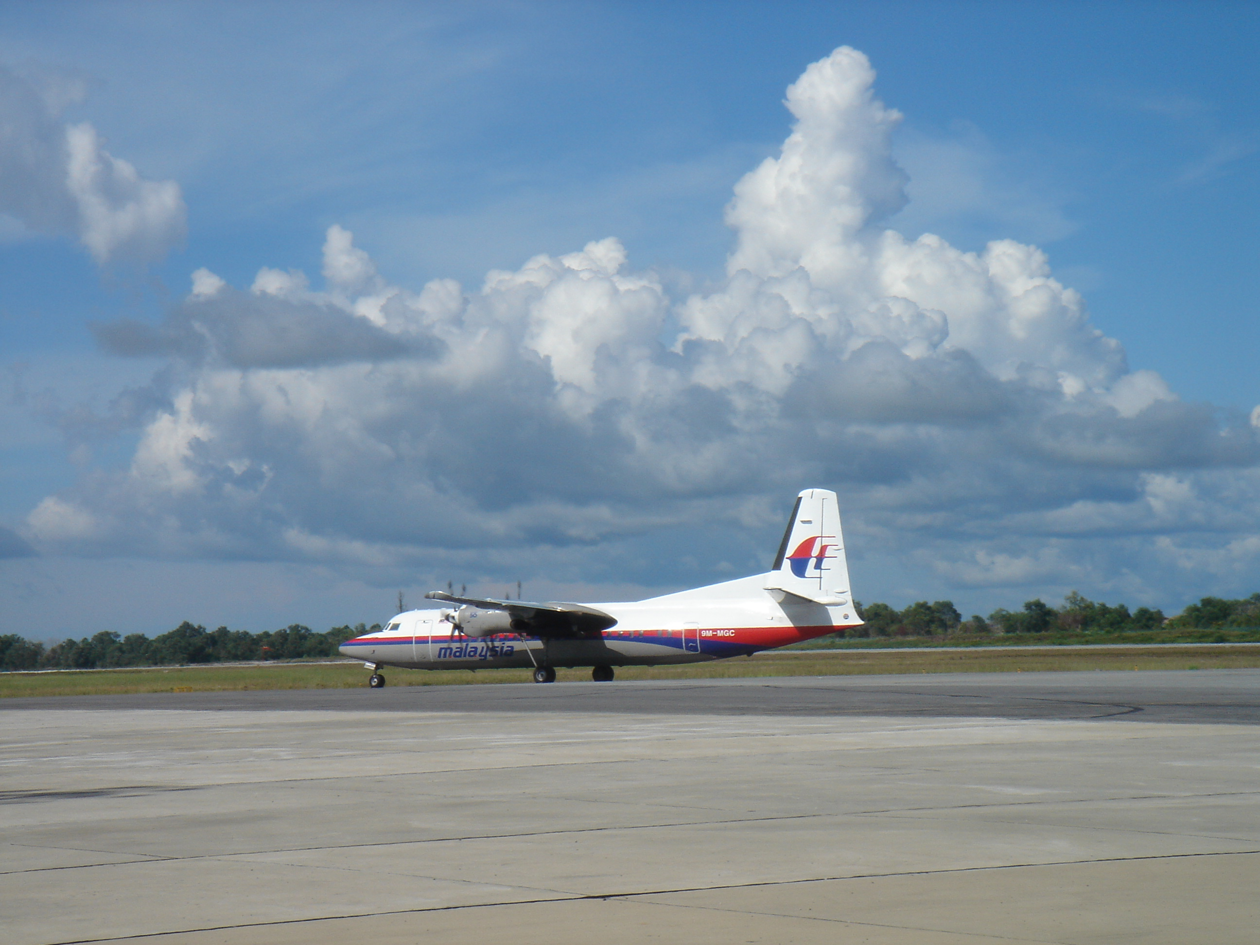 Malaysia Airlines Fokker 50, taken in 2006. It has since been repainted as MASWings.